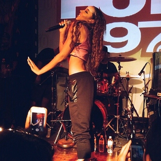 Tinashe performing Vulnerable.